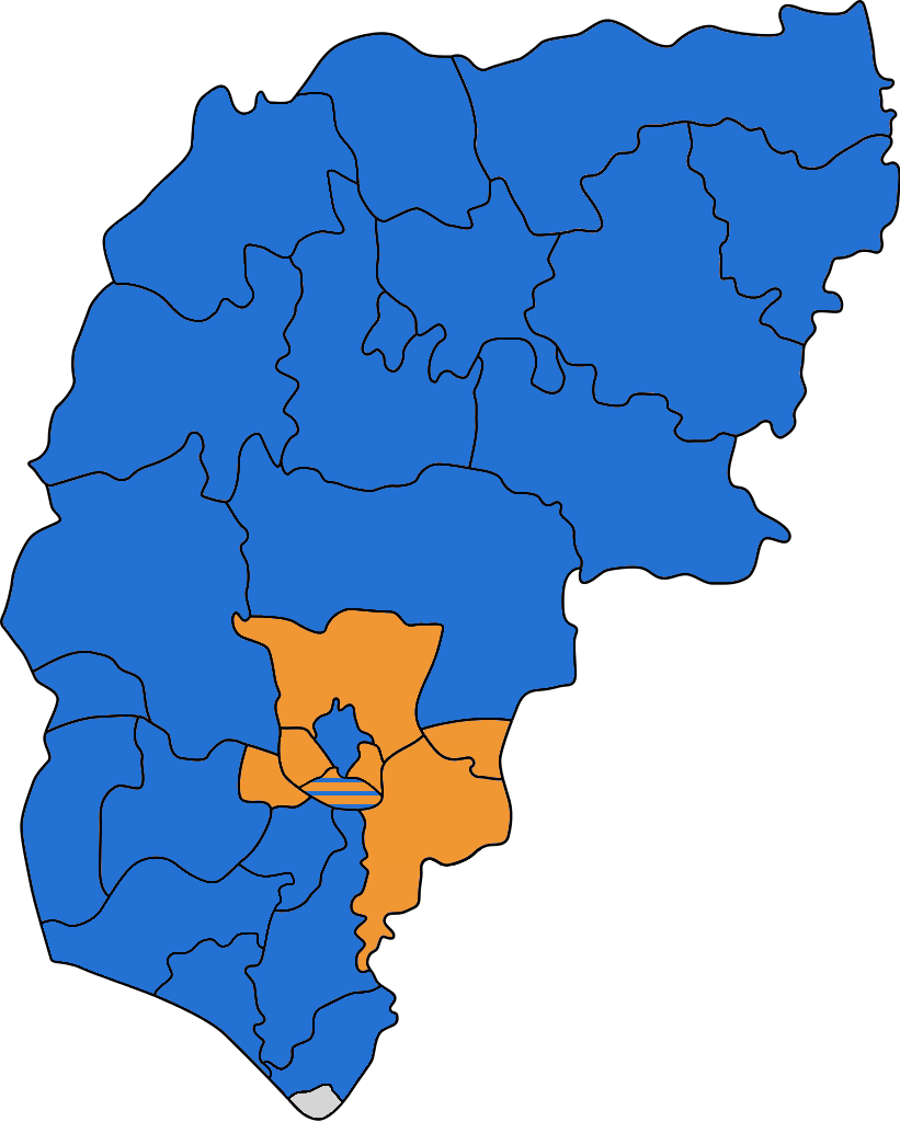 Map showing the results of the 2007 Chichester District Council election